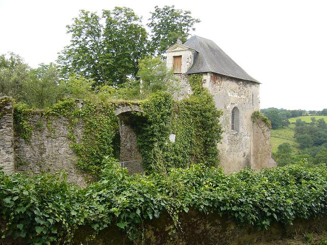 Entrance of the former domicile of Joachim du Bellay in Liré (department Maine-et-Loire, France)